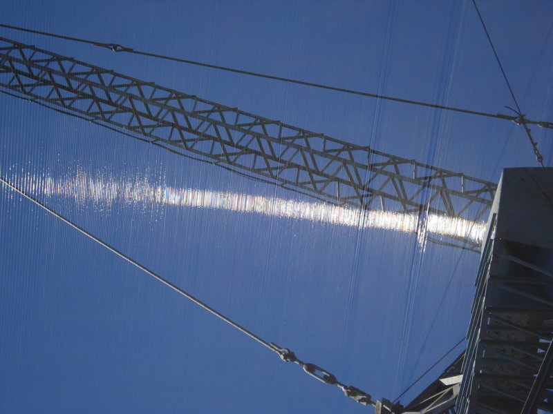 Reflection of sunlight from Ooty Radio telescope parabolic mirror wireframe